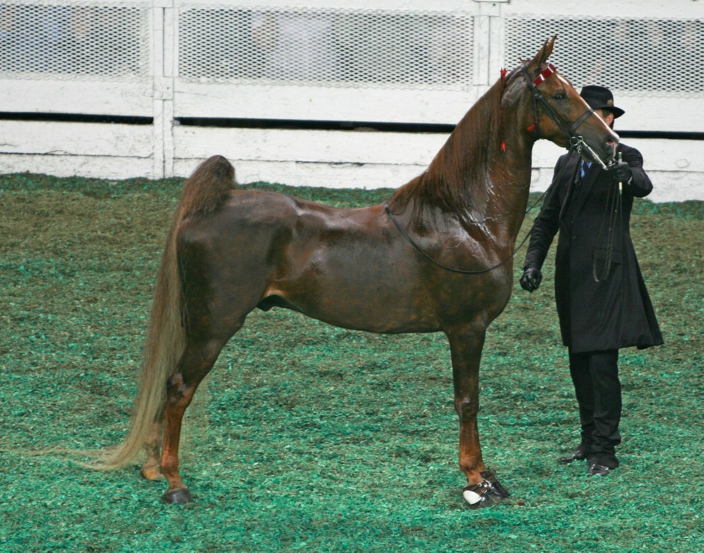 images by Heather Abounader